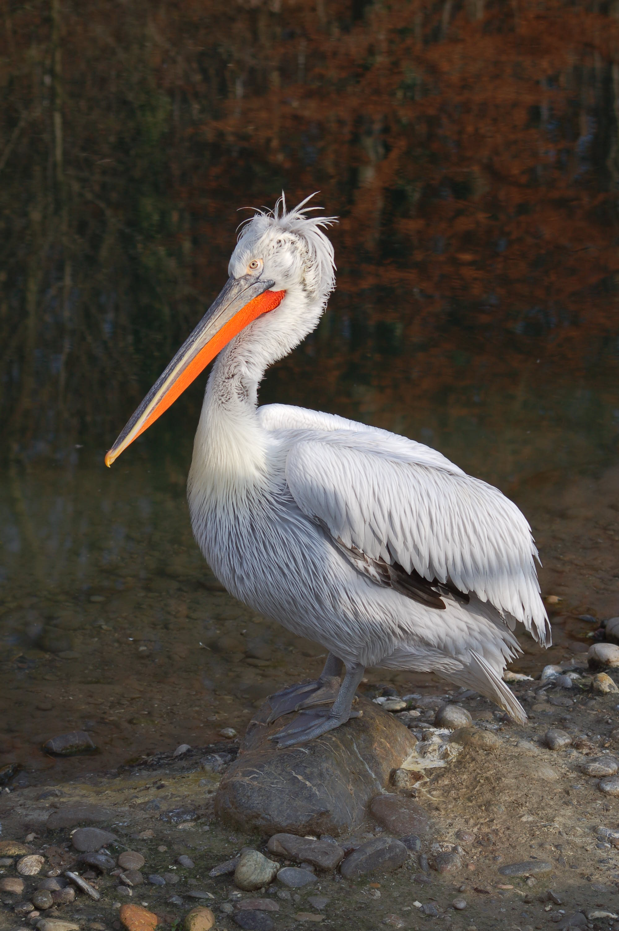 Dalmatian Pelican Pelecanus crispus